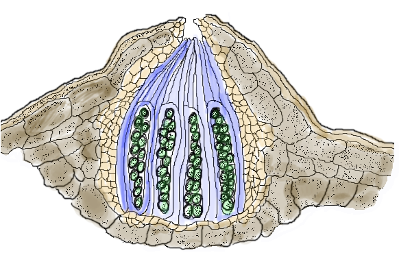 Perithecium (German: Perithezium)